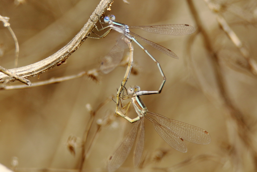 Plateau Spreadwing (Lestes alacer), Lewisville, TX, USA